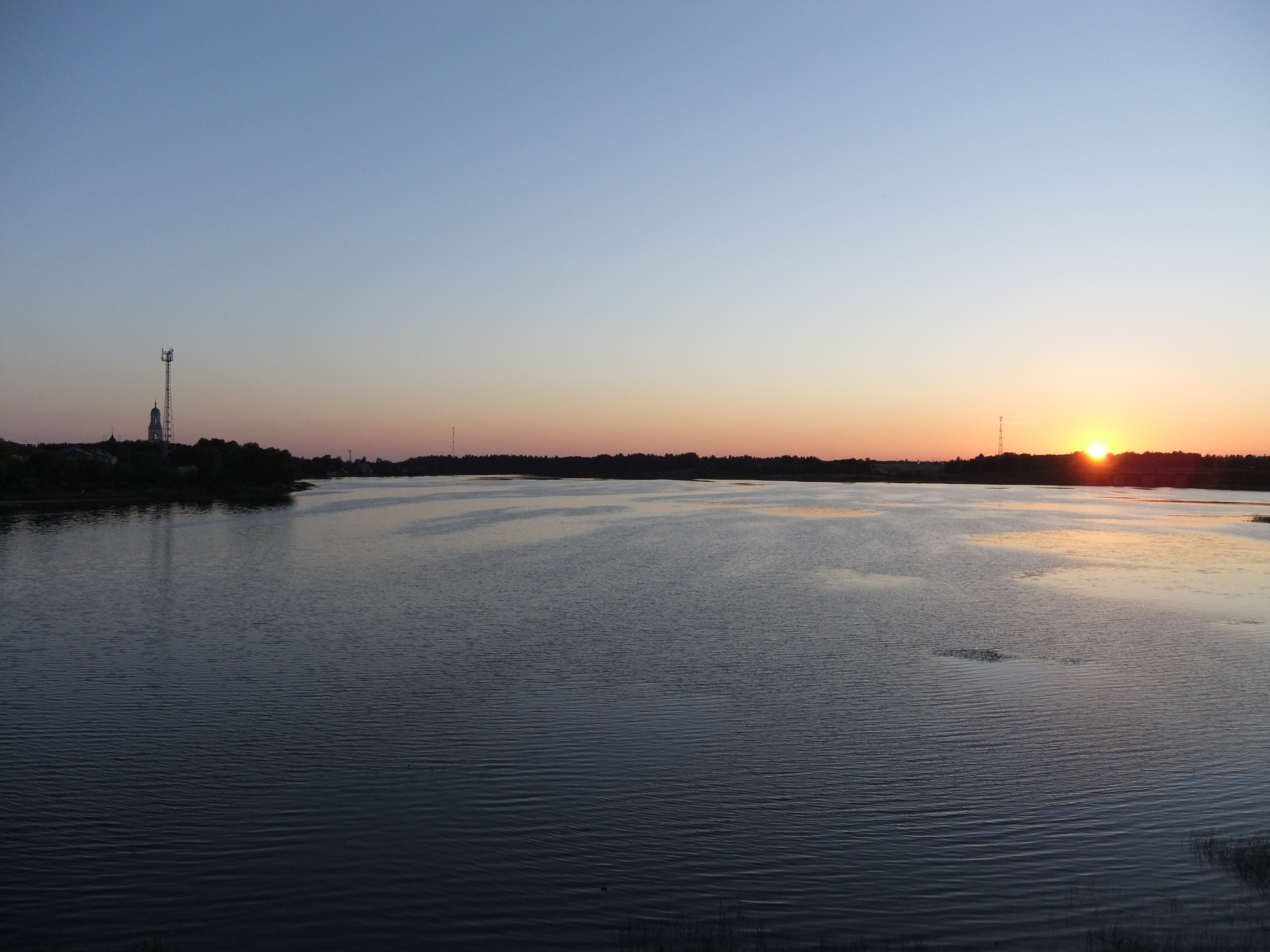 The estuary of the the Sogozha and Soga River in Poshekhonye, around sunset time. Looking west from the Soga River bridge.